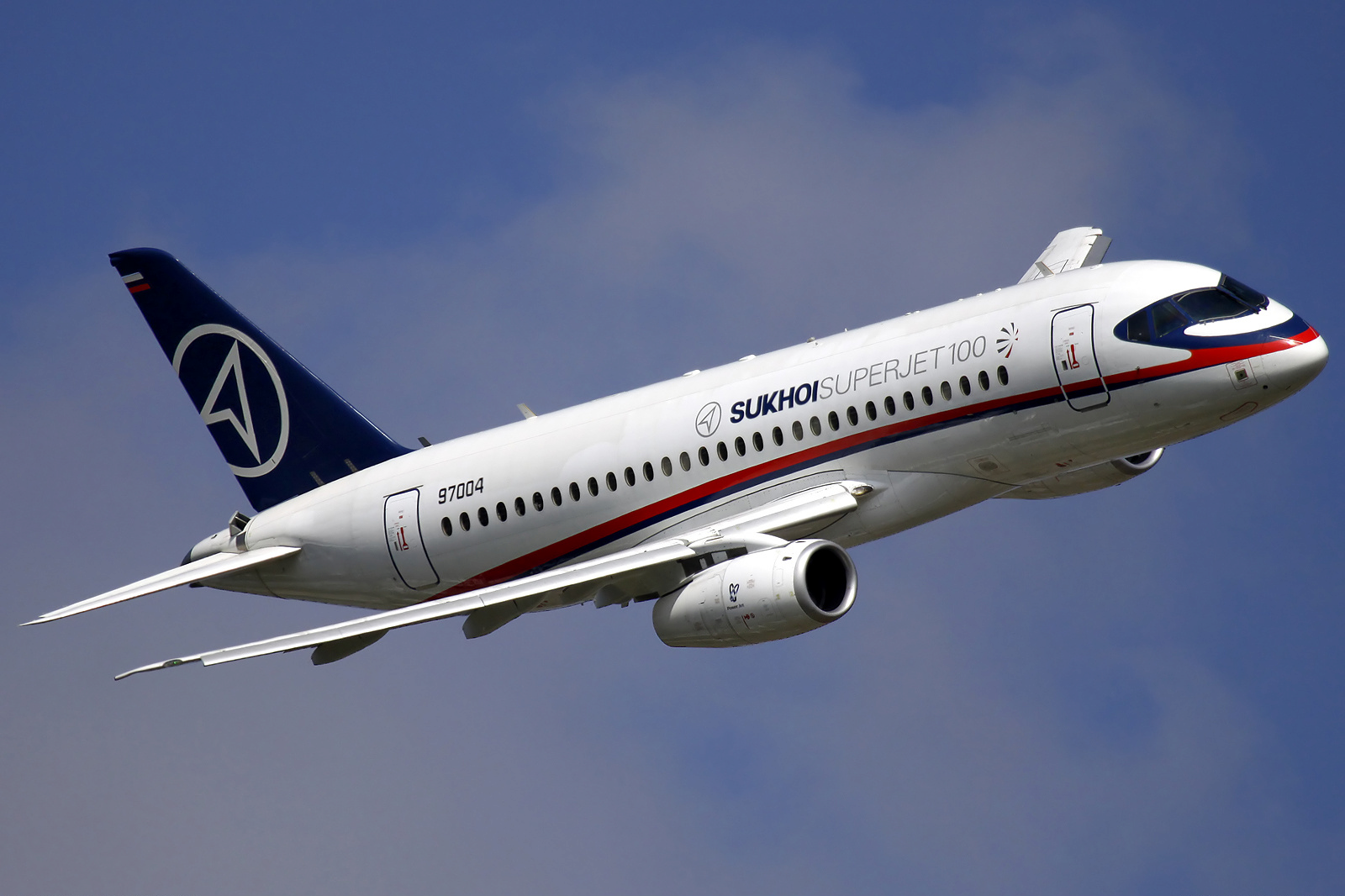 Sukhoi Superjet 100-95 at Ramenskoye Airport (UUBW)